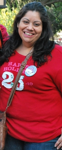 Photo of Carla Jimenez.